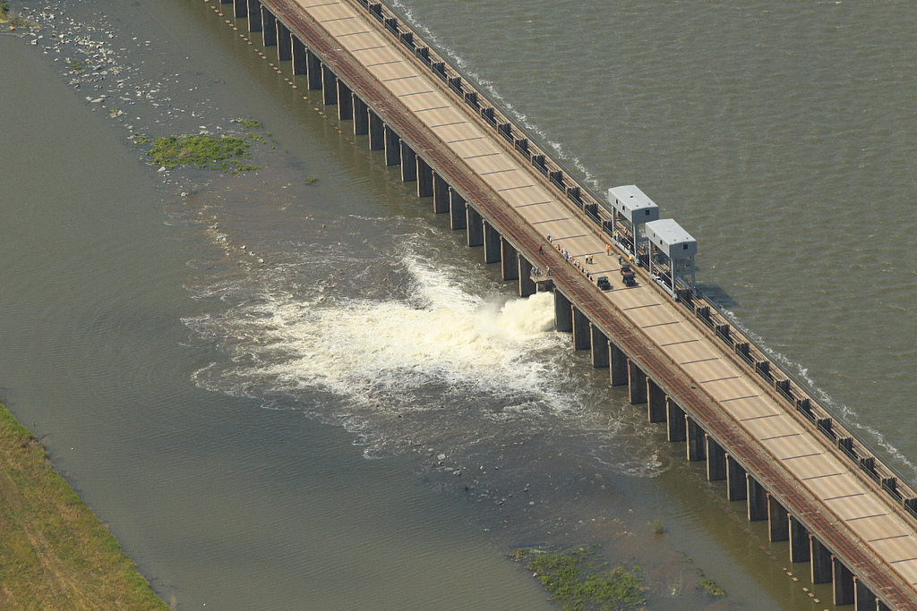 LOUISIANA — Water is flowing through bays at the Morganza floodway, May 14, 2011. (U.S. Army Corps of Engineers photo)